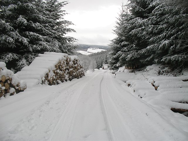 Log piles, Cardrona Forest Thinning was in progress further up the hill to the right beside the Upper Kirkburn Road. The road in the photograph leads out of the forest at Kirkburn.